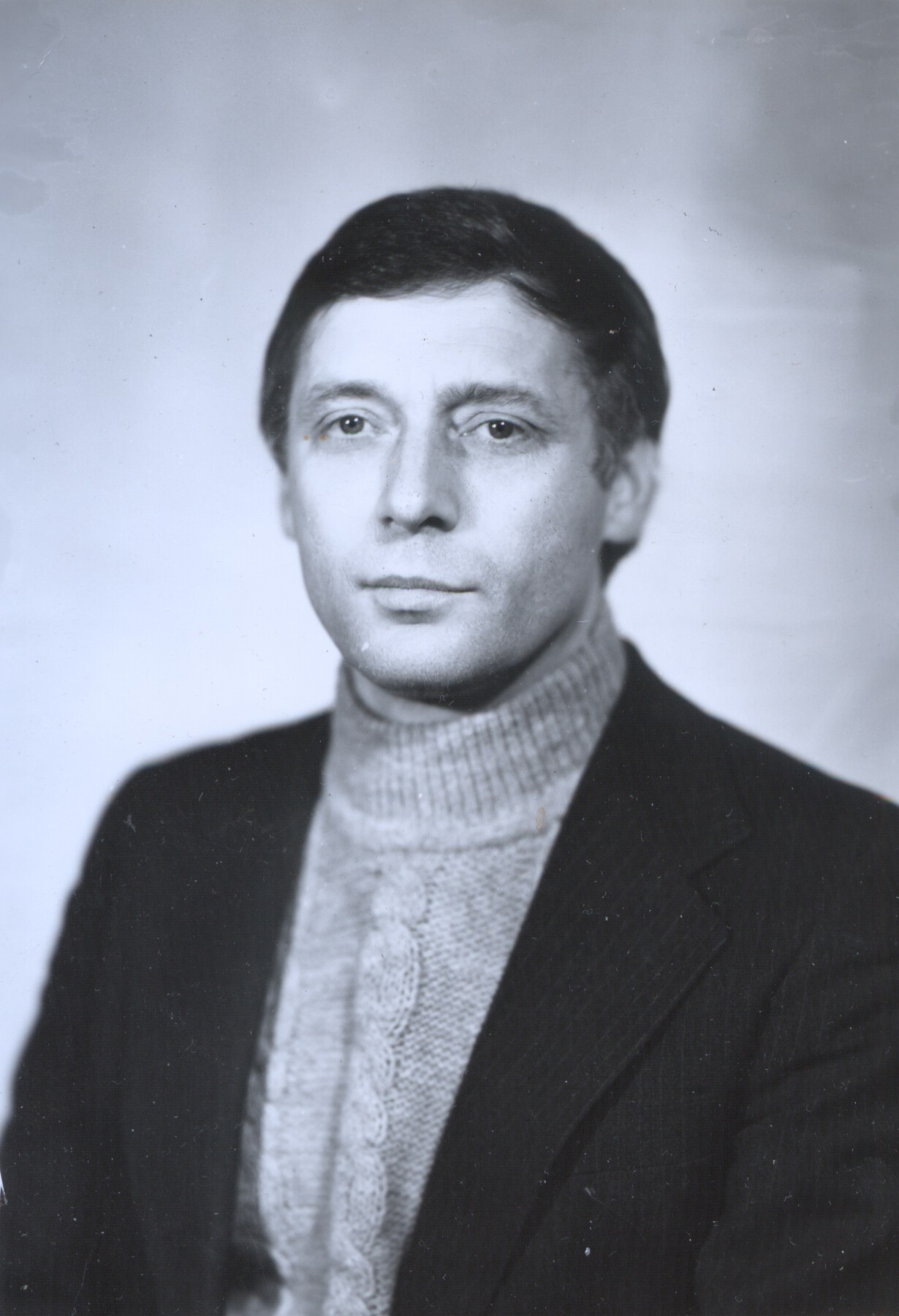 Nosov Vladislav Vasilyovich short before parliamentory elections in Ukrainian SSR in 1990